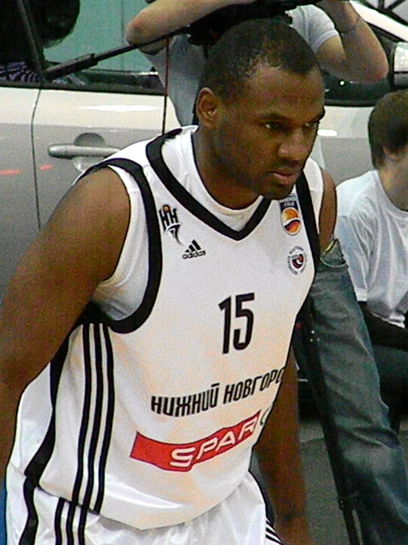 Kirk Snyder, american basketball player from BC Nizhny Novgorod in the game against BC Enisey Krasnoyarsk on March 26th, 2011